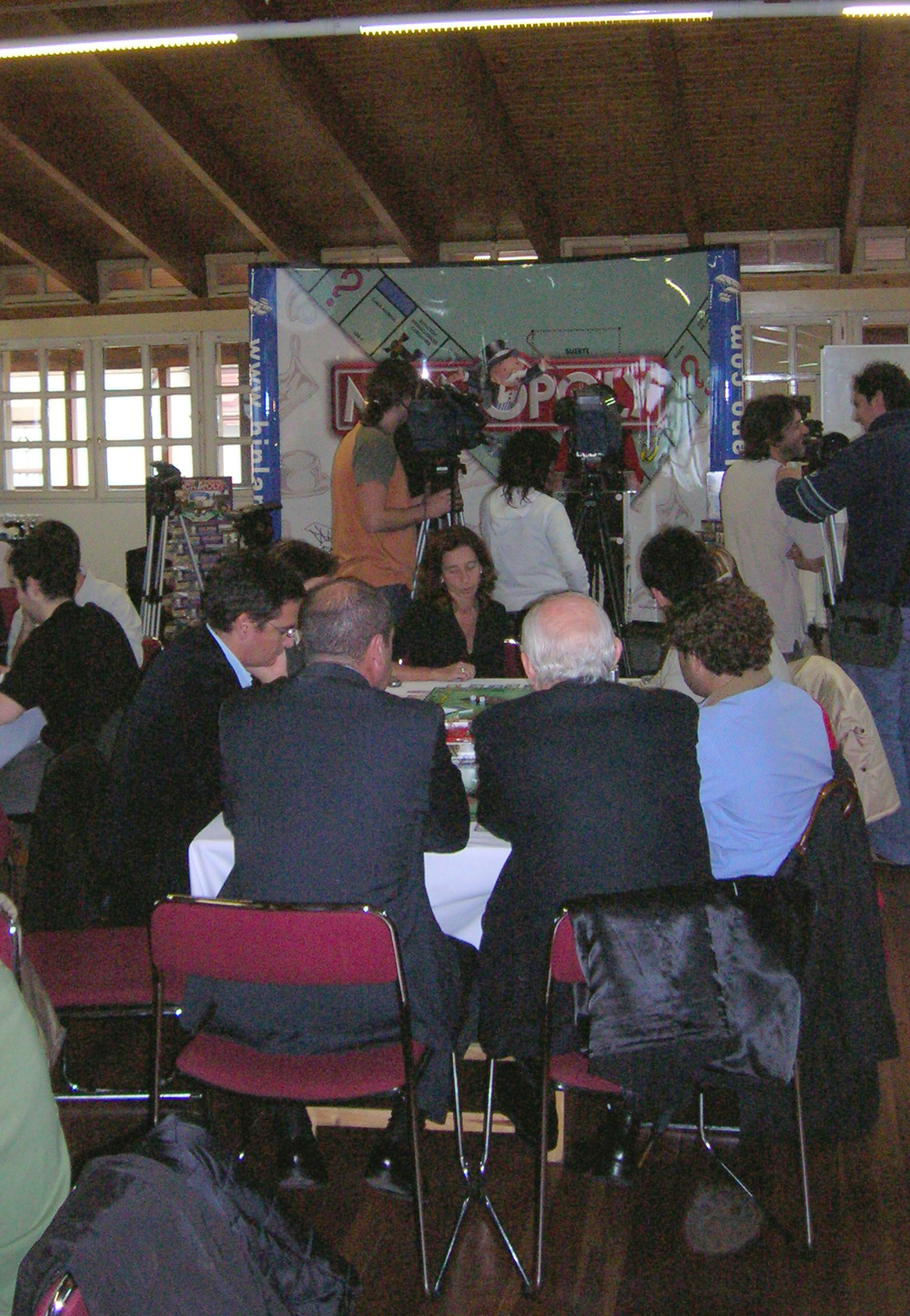 Presentation of the version of Hasbro's Monopoly for Bilbao (the man sitting on the left with glasses and his head on his hand is town concejal Antonio Basagoiti), at local cultural facilities of the Old Burse Building.